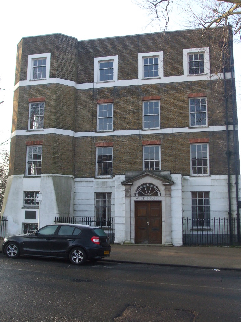 Wick House, Richmond Hill, Richmond, London was built in 1772 for Sir Joshua Reynolds and designed by Sir William Chambers. It is situated near to RIchmond Park and overlooks Petersham Common and the RIver Thames beyond.